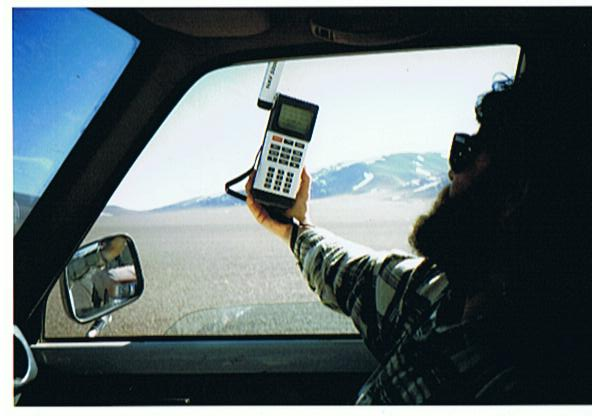 Use of a GPS receiver in the field (High Andes, 1993)